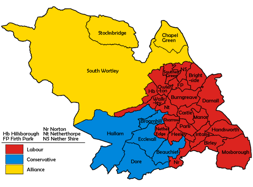 Ward map of Sheffield Council with political colouring for the 1984 election.